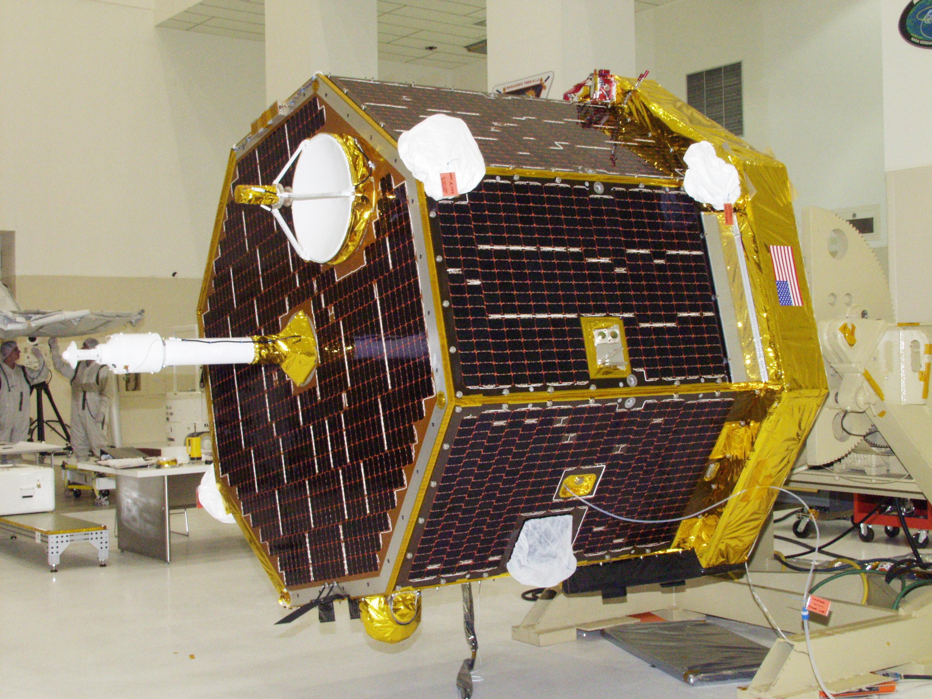 The Comet Nucleus Tour (CONTOUR) spacecraft is ready to be raised for its move to a spin table in the Spacecraft Assembly and Encapsulation Facility 2. CONTOUR will provide the first detailed look into the heart of a comet -- the nucleus. Flying as close as 60 miles (100 kilometers) to at least two comets, the spacecraft will take the sharpest pictures yet of a nucleus while analyzing the gas and dust that surround these rocky, icy building blocks of the solar system. Launch of CONTOUR aboard a Boeing Delta II rocket is scheduled for July 1 from Launch Pad 17-A, Cape Canaveral Air Force Station.